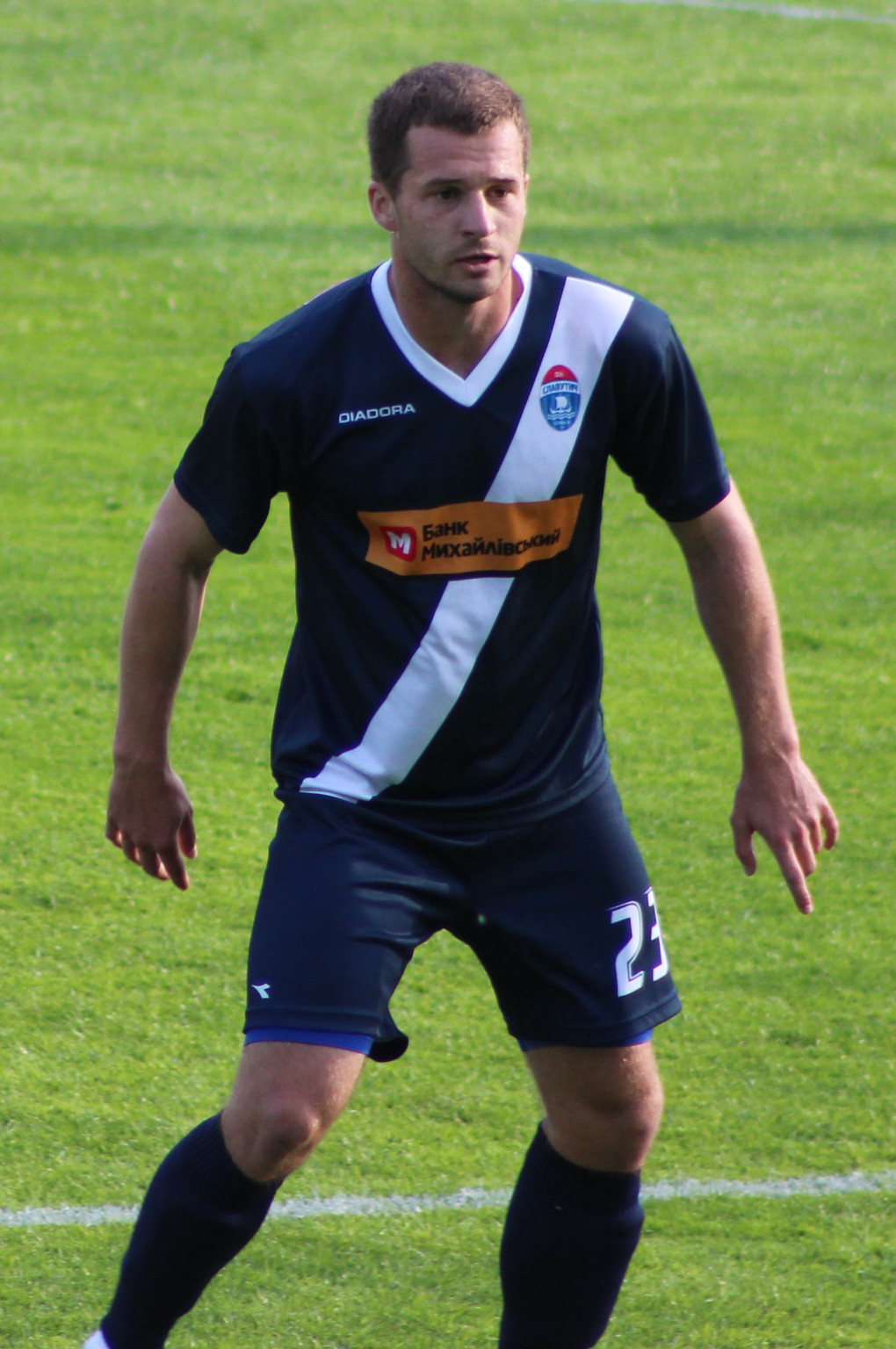 Dmytro Koshelyuk